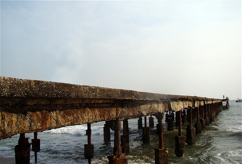 Thalassery Pier in Thalassery, India